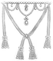 The diamond necklace was commissioned by Louis XV for Madame Dubarry from the crown jewellers Bohmer and Bassenge. It was worth an equivalent value then of £80,000, but with the death of the King the necklace was not paid for, almost bankrupting the jewellers and leading to various unsuccessful schemes to secure a sale to Queen Marie-Antoinette. 18th century